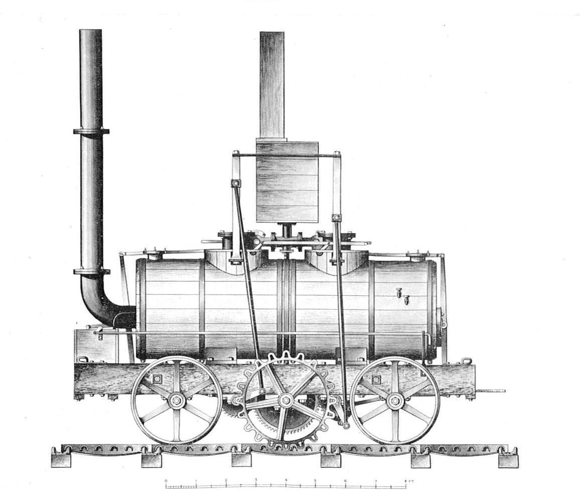 Blenkinsop's rack locomotive Salamanca, Middleton to Leeds (UK) coal tramway, 1812